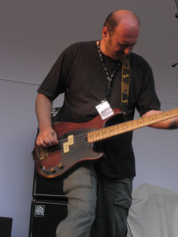 The Hyènes at the Hôtel de Sully (Paris) on World Music Day 2007.